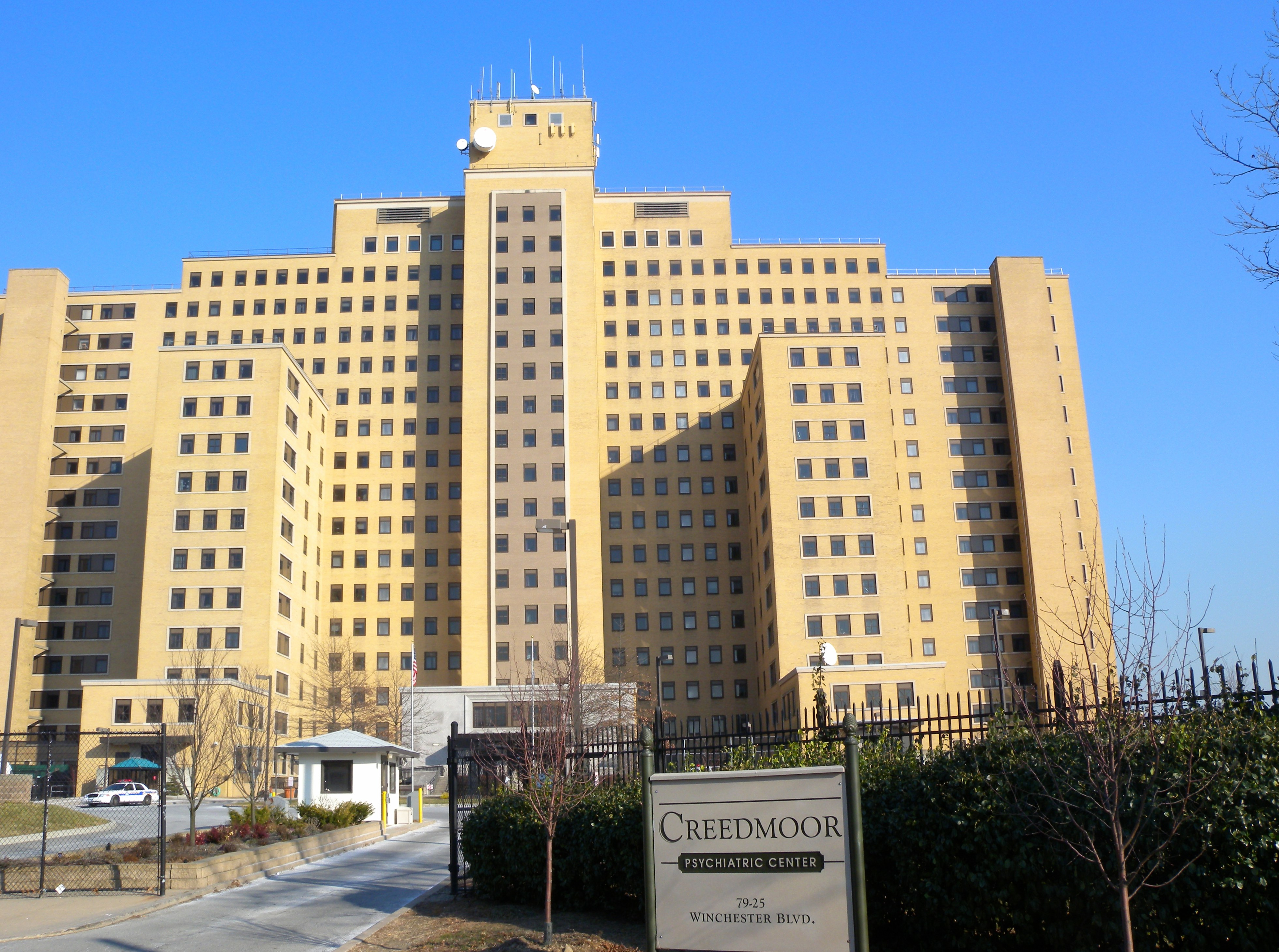 Looking east from Winchester Blvd at Creedmoor Psychiatric Center on a sunny afternoon.